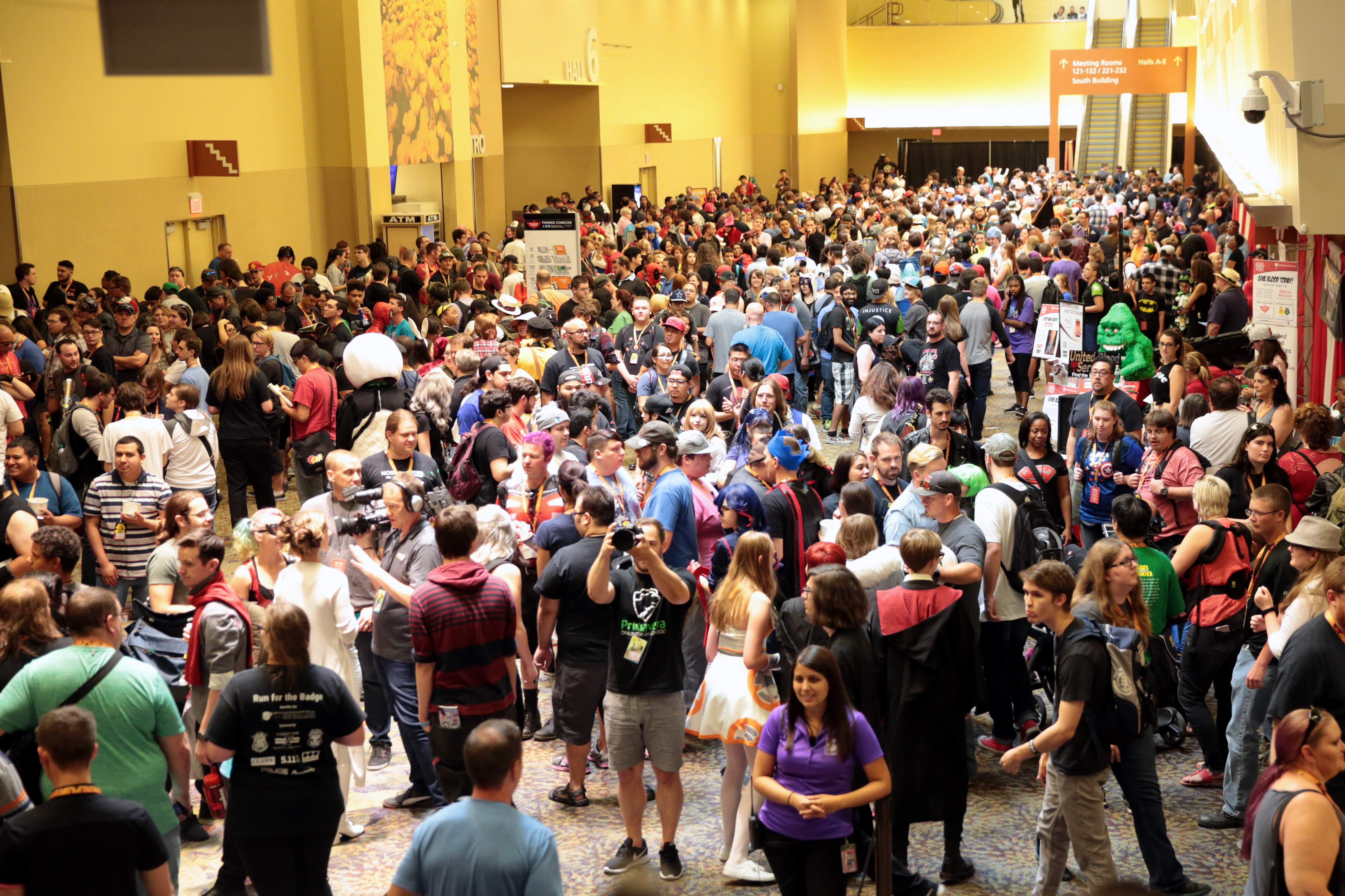 Attendees outside the exhibit floor at the 2017 Phoenix Comicon at the Phoenix Convention Center in Phoenix, Arizona.